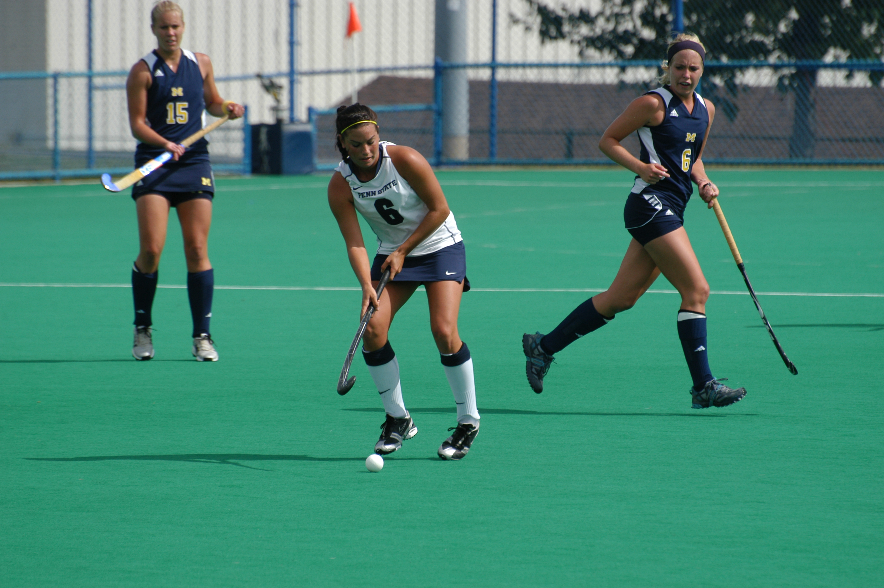 The Michigan Wolverines vs. the Penn State Nittany Lions during a Big Ten field hockey game in University Park, Pennsylvania.